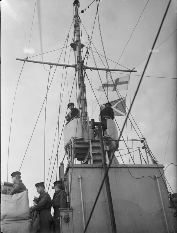 On Board HMS Aristocrat during the Allied Invasion of Normandy, 6 - 8 June 1944 Naval personnel in the viewing platform, above the superstructure, aboard the steam paddle mercantile conversion Auxiliary Anti-Aircraft vessel (coastal) HMS ARISTOCRAT as she heads towards the coast of Europe near Arromanches, France.